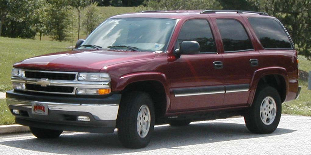 2000-2006 Chevrolet Tahoe GMT800 photographed in USA.